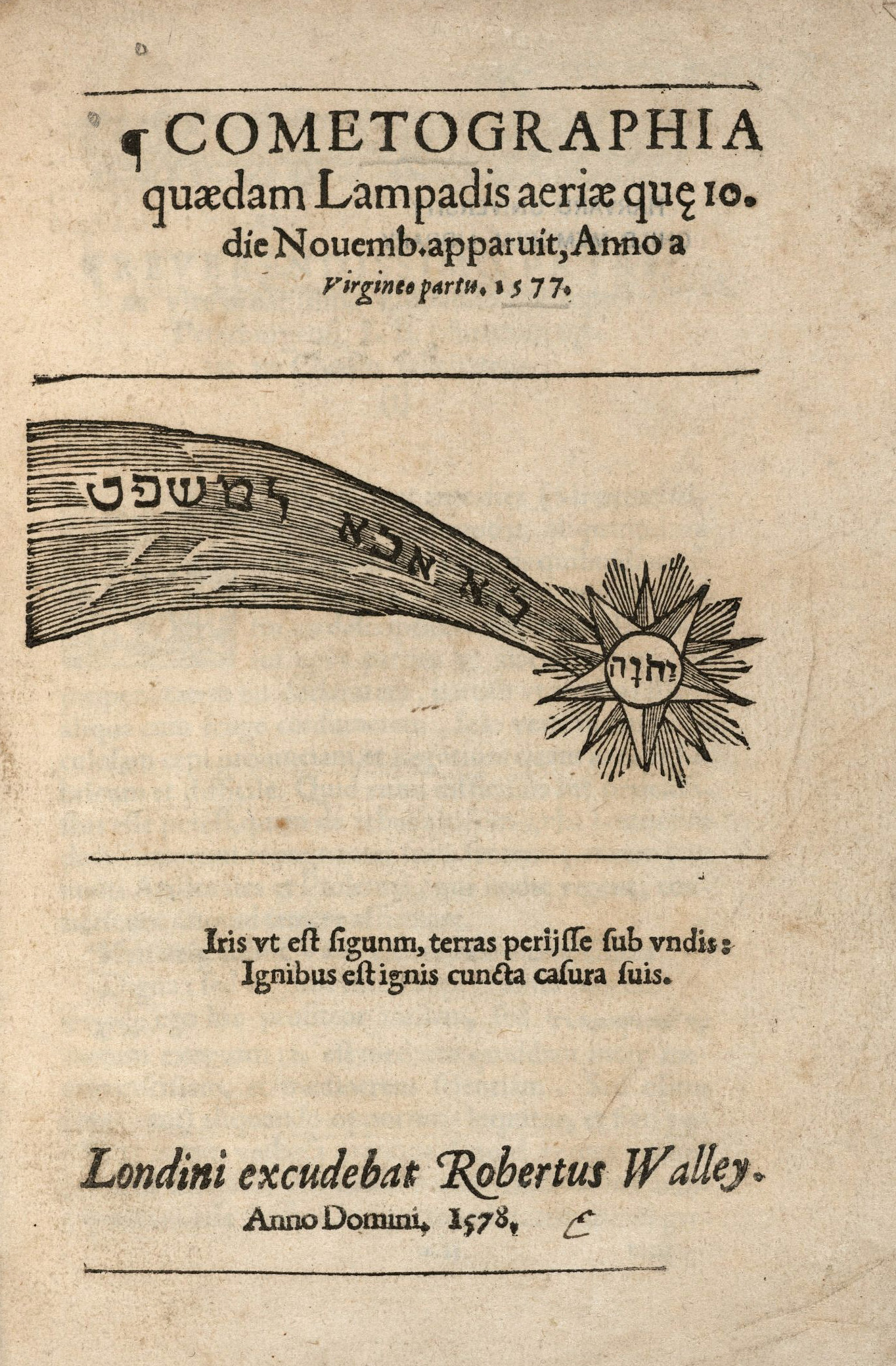 Title page from Cometographia quaedam lampadis aeriae que 10. die Novemb. apparuit, anno a Virginto partu, 1577, London: 1578, by Laurence Johnson. STC 1416, Houghton Library, Harvard University Inscription in Hebrew: יהוה: בא אבא למשפט (en: God: I shall come to judge (Last Judgment))